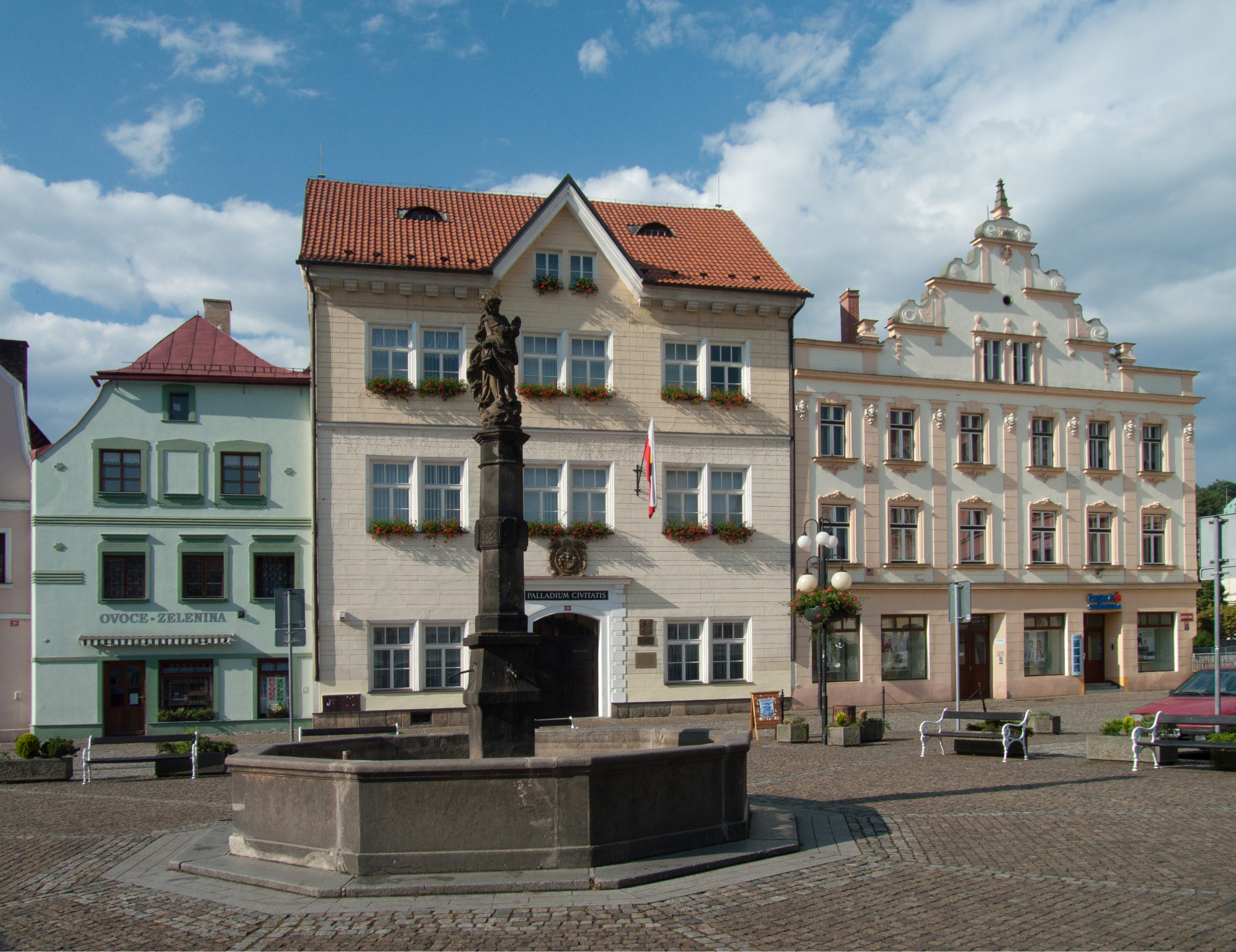 Fountain and town hall in the town square of Česká Kamenice, Ústí nad Labem Region, Czech Republic